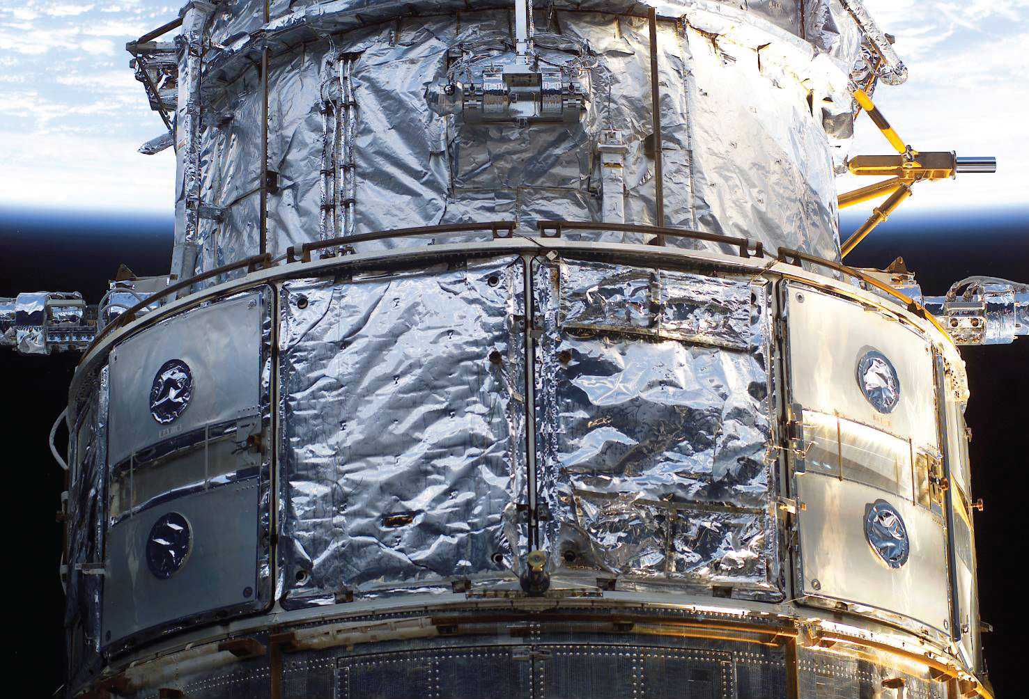 This photo shows from left to right, Bays 6, 7, 8, and 9 with New NOBLs on Bays 6 and 9. The damaged insulation on Bay 8 is scheduled to be replaced during SM4.